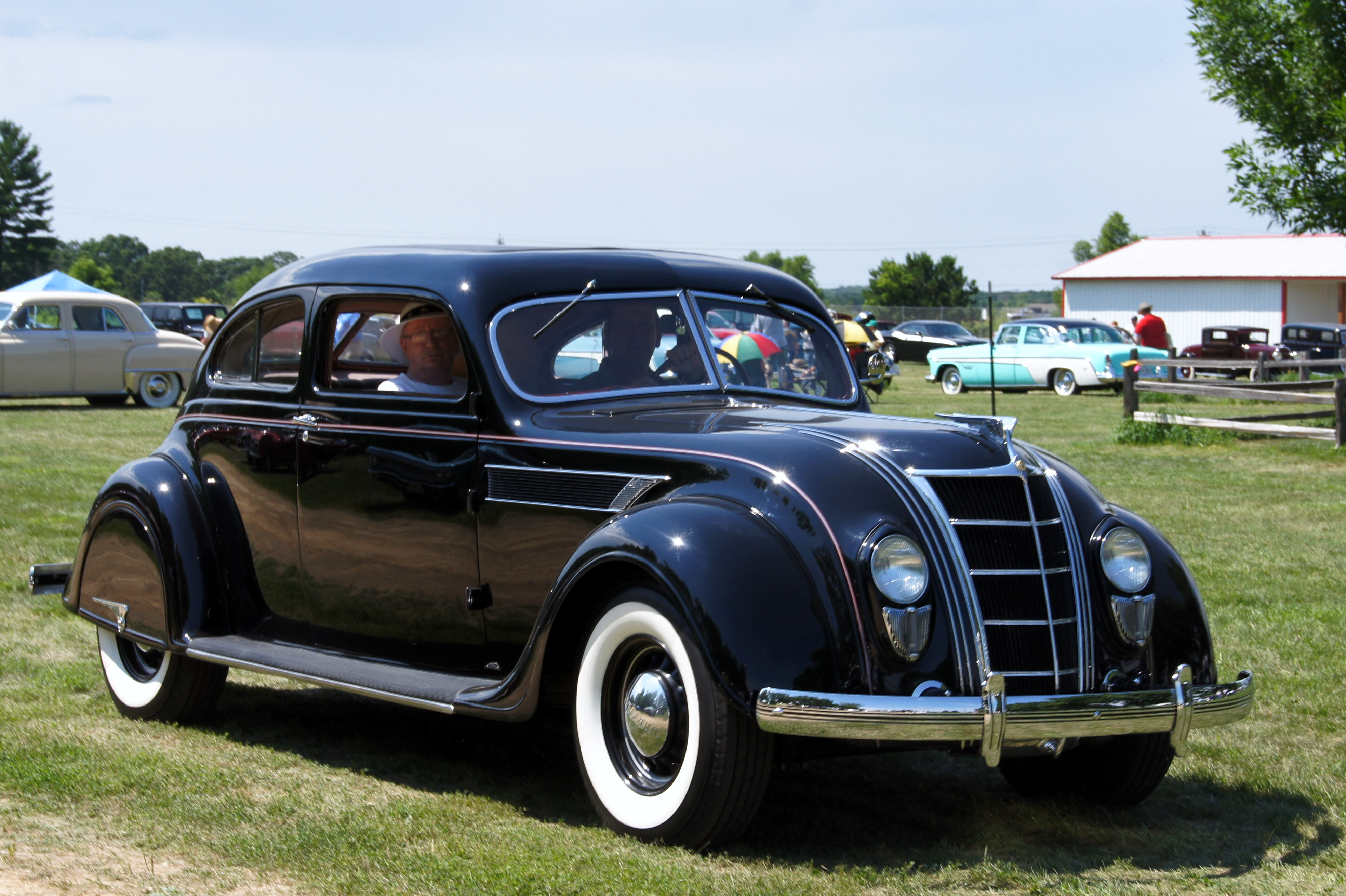 The Airflows never stop amazing me. I had a great chat with Frank, proud of owner of this Imperial. This car was driven from Washington to Minnesota for the WPC DeSoto Convention and then was pressing on to the Airflow Convention in Ohio. 1st Combined Convention 28th Annual National DeSoto Club Convention & 44th Annual Walter P.Chrysler Club Convention July 17 - 21, 2013 Lake Elmo, Minnesota Click link below for more car pictures